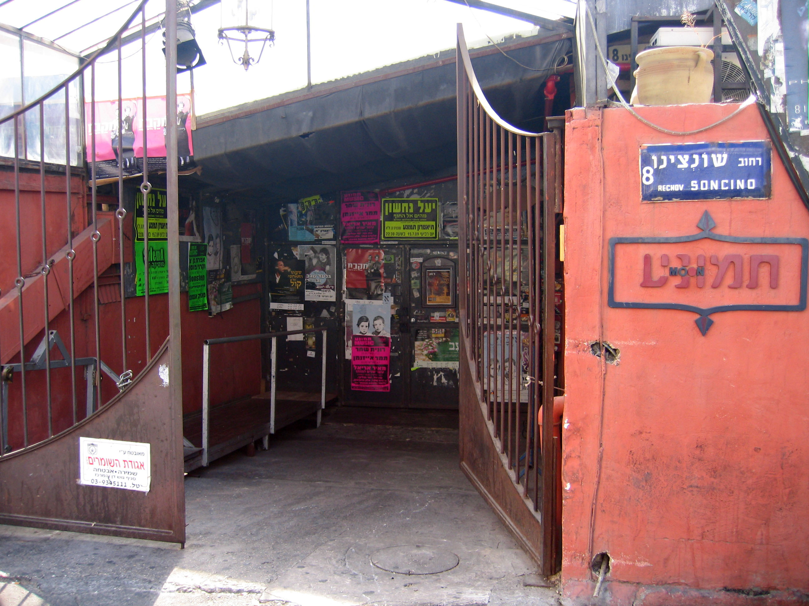 Tmona Theatre